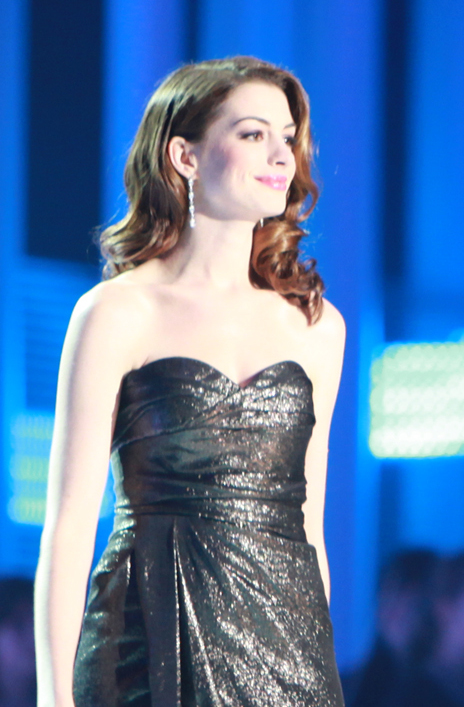 Denzel Washington and Anne Hathaway at The Nobel Peace Price Concert 2010